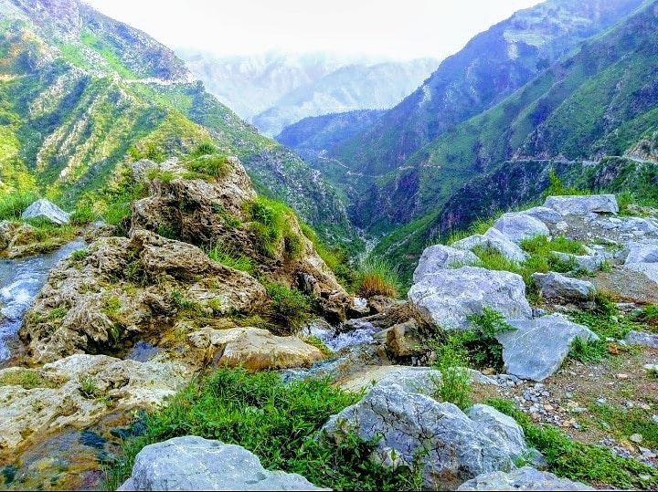 picture was taken and edited by Huawei Y7 Prime. Beautiful mountainous view of Chajian Village